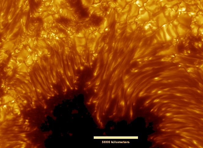 This stunning image shows remarkable and mysterious details near the dark central region of a planet-sized sunspot in one of the sharpest views ever of the surface of the Sun. Just released, the picture was made using the Swedish Solar Telescope now in its first year of operation on the Canary Island of La Palma. Along with features described as hairs and canals are dark cores visible within the bright filaments that extend into the sunspot, representing previously unknown and unexplored solar phenomena. The filaments' newly revealed dark cores are seen to be thousands of kilometers long but only about 100 kilometers wide. Resolving features 100 kilometers wide or less is a milestone in solar astronomy and has been achieved here using sophisticated adaptive optics, digital image stacking, and processing techniques to counter the blurring effect of Earth's atmosphere. At optical wavelengths, these images are sharper than even current space-based solar observatories can produce. Recorded on 15 July 2002, the sunspot shown is the largest of the group of sunspots cataloged as solar active region AR 10030.